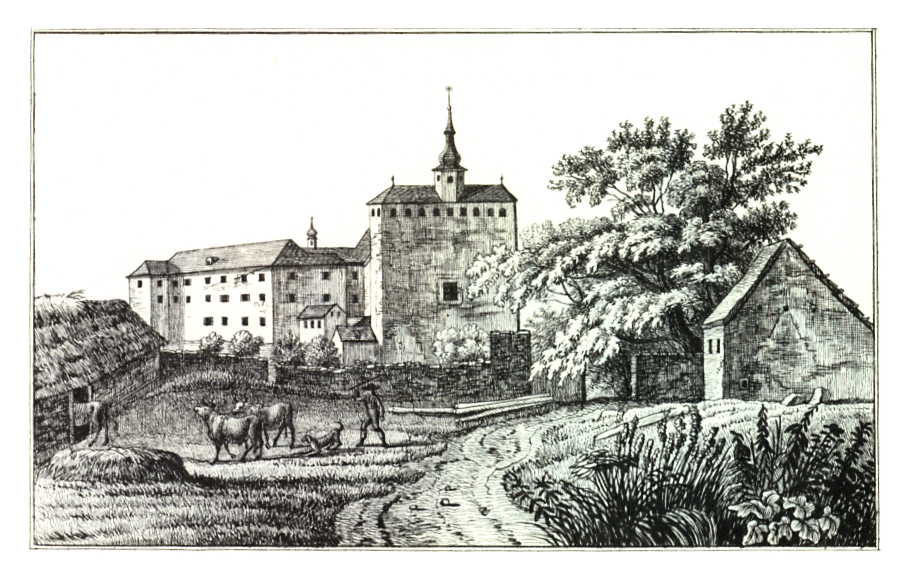 J. F. Kaiser - lithographirte Ansichten der Steyermärkischen Städte, Märkte und Schlösser Graz, 1825 Joseph Franz Kaiser (1786–1859) Alternative names J. F. KaiserDescriptionAustrian printer and editorDate of birth/death 11 March 1786 19 September 1859Location of birth/death Graz (Styria) GrazAuthority control : Q1499963 VIAF: 30629353 ISNI: 0000 0000 3083 0153 LCCN: n87141671 GND: 129880159 NLP: A24960305 WorldCat creator QS:P170,Q1499963 Scanprojekt Community Projektbudget 2012 This scan or this PDF-file was created within the GLAM-project Bookscanning, supported by Wikimedia Germany and Wikimedia Austria as a part of the community-project to capture books, documents and pictures which are not eligible to copyright or for which the copyright has expired. This document describes or depicts an object which is located in Austria today. Send requests for uncompressed scans to Hubertl. This work is in the public domain in its country of origin and other countries and areas where the copyright term is the author's life plus 100 years or less. You must also include a United States public domain tag to indicate why this work is in the public domain in the United States. This file has been identified as being free of known restrictions under copyright law, including all related and neighboring rights.